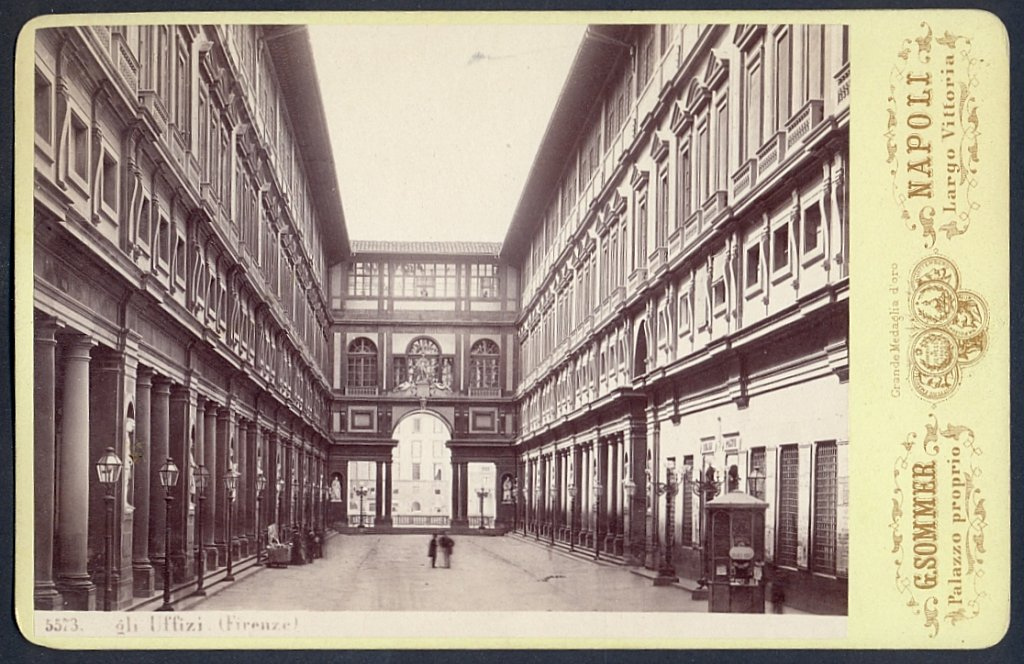 Giorgio Sommer (1834-1914), "The Uffizi in Florence". Catalogue number: 5573.